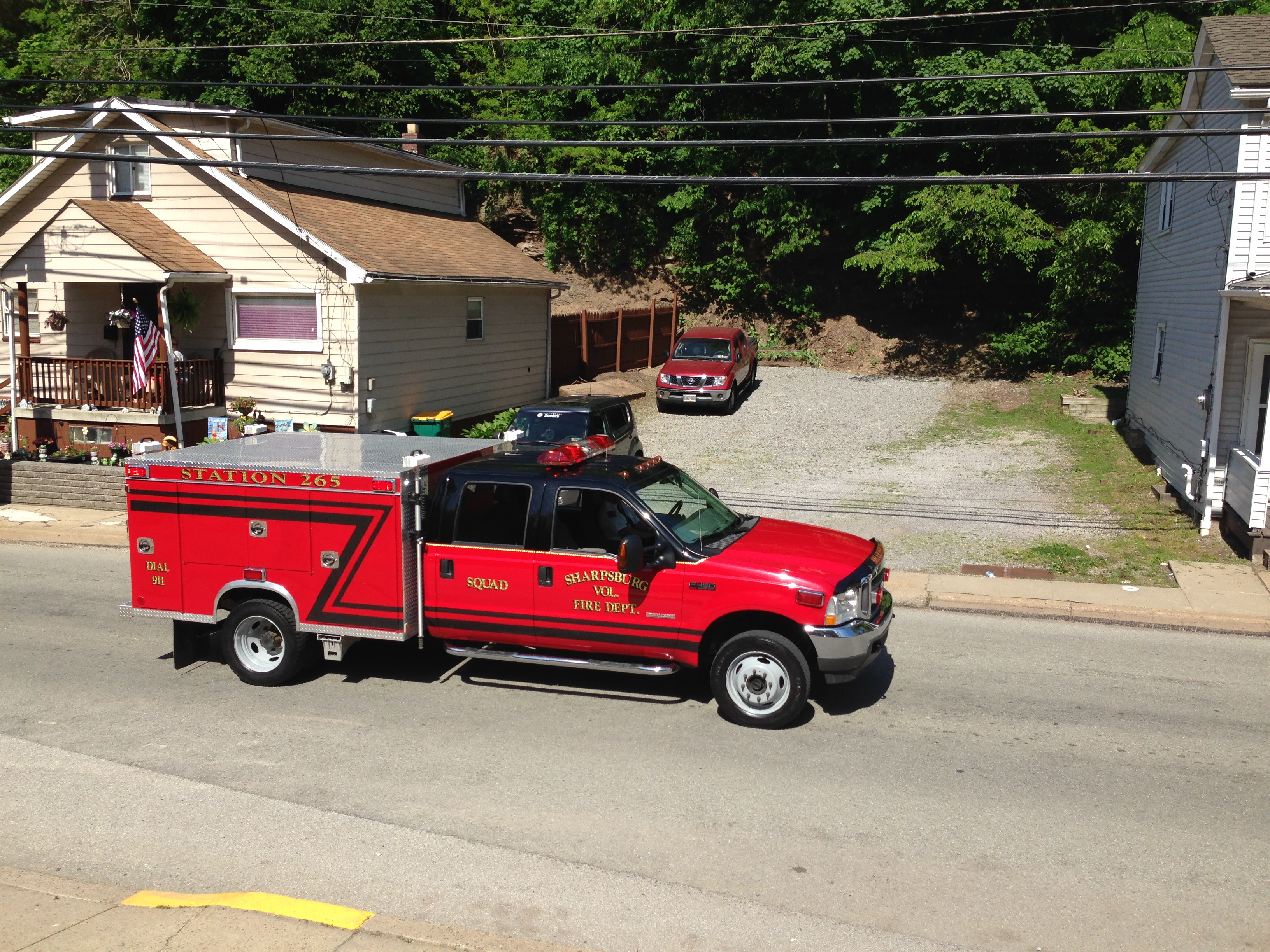 Sharpsburg Volunteer Fire Department Squad Truck.